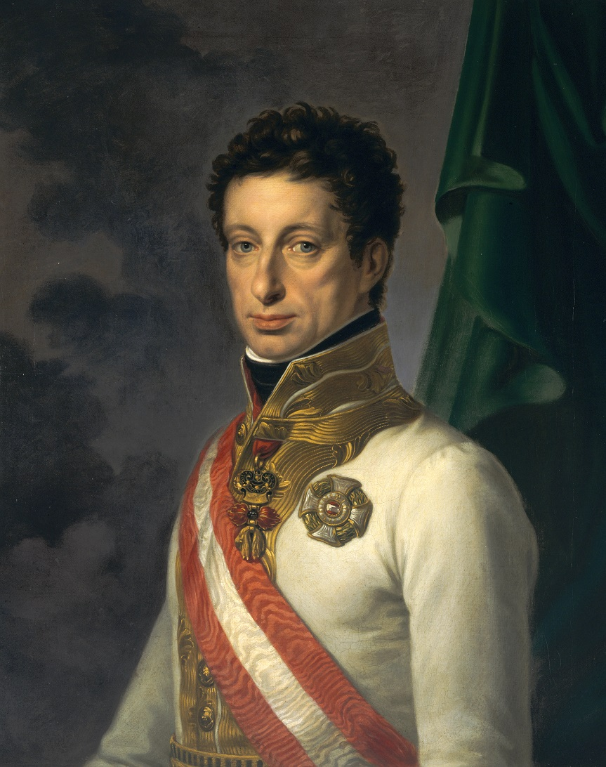 Archduke Charles, Duke of Teschen (1771-1847)